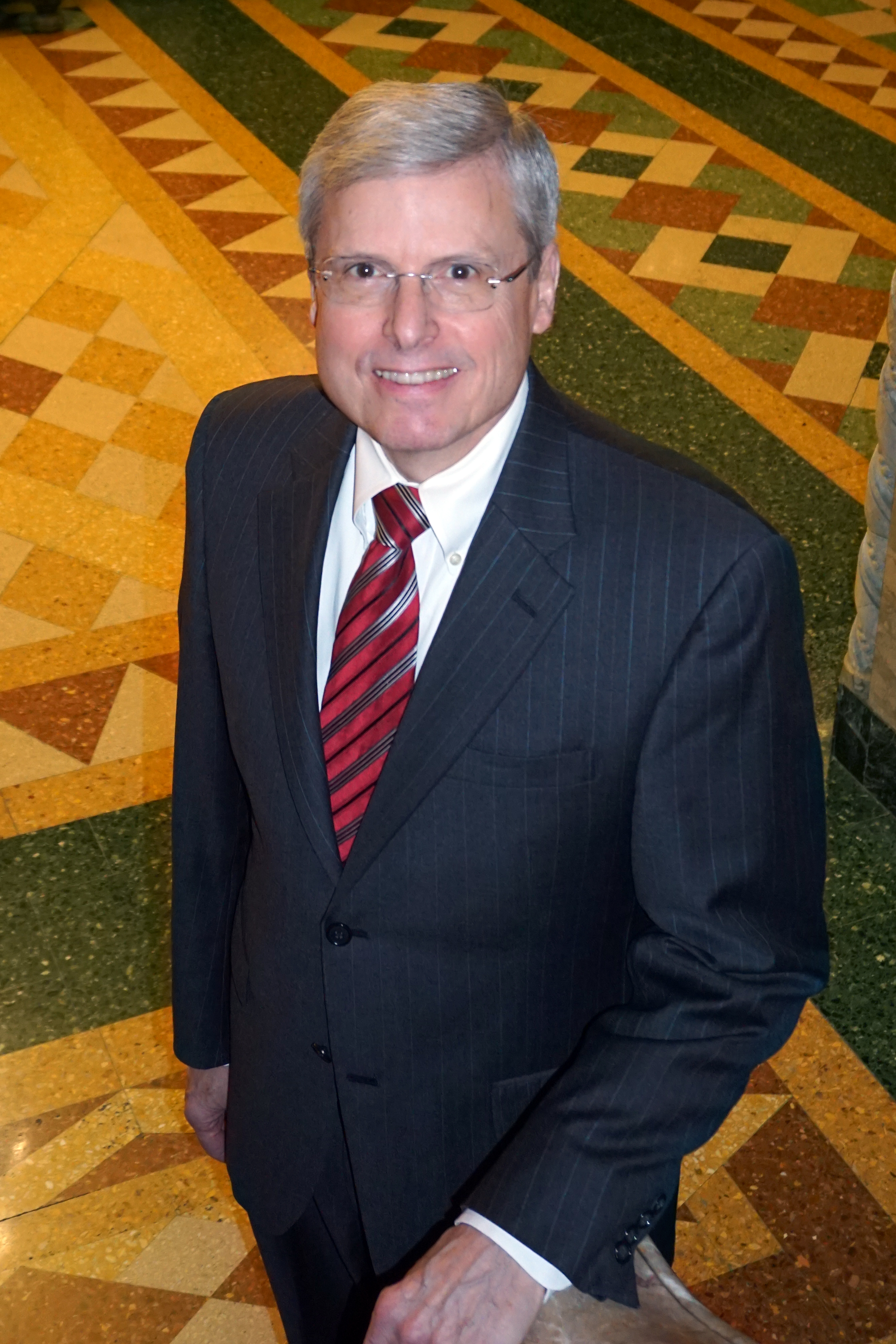 W. Bruce Fye, M.D.